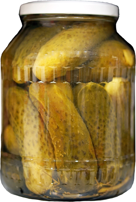 Pickled cucumber